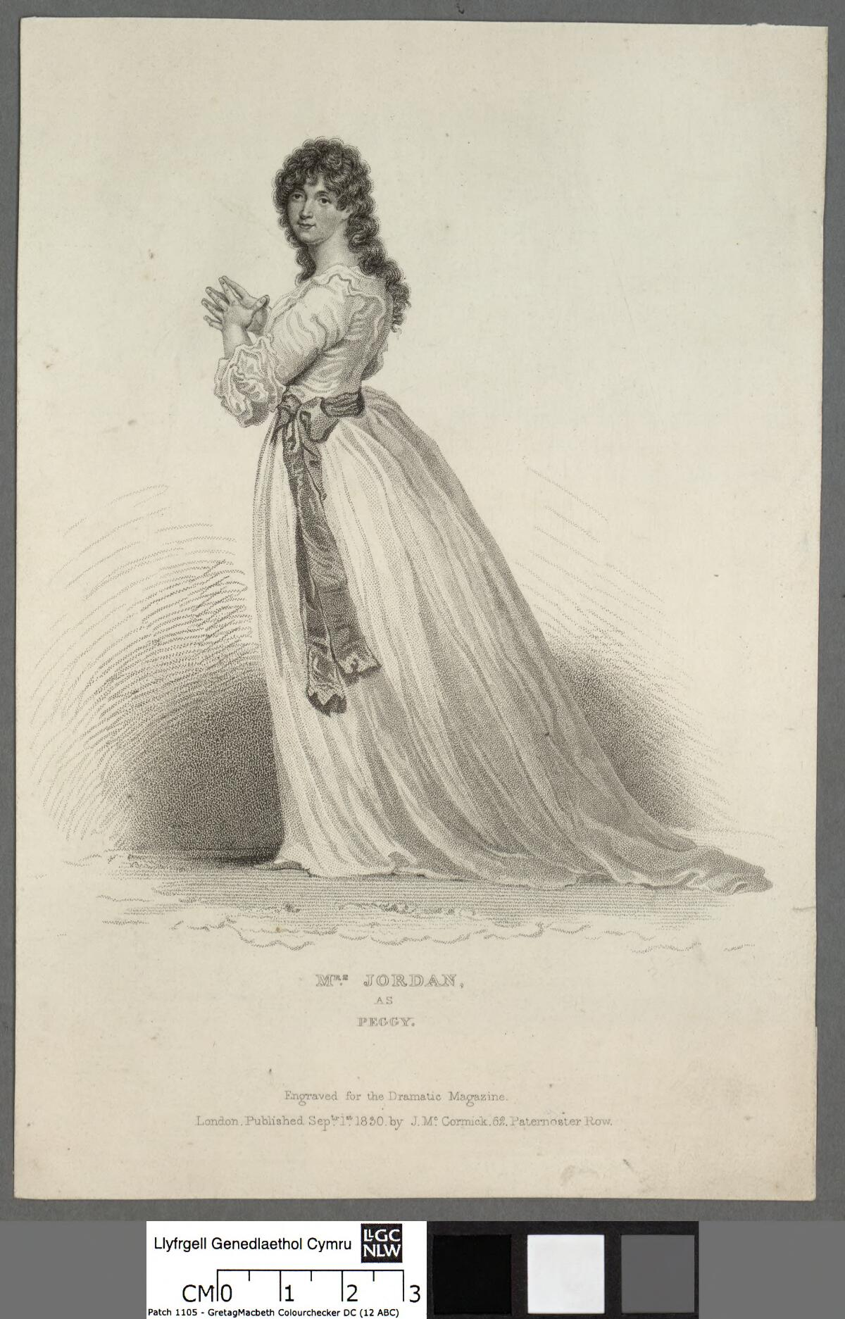 A portrait from the Welsh Portrait Collection at the National Library of Wales. Depicted person: Dorothea Bland – Anglo-Irish actress and courtesan